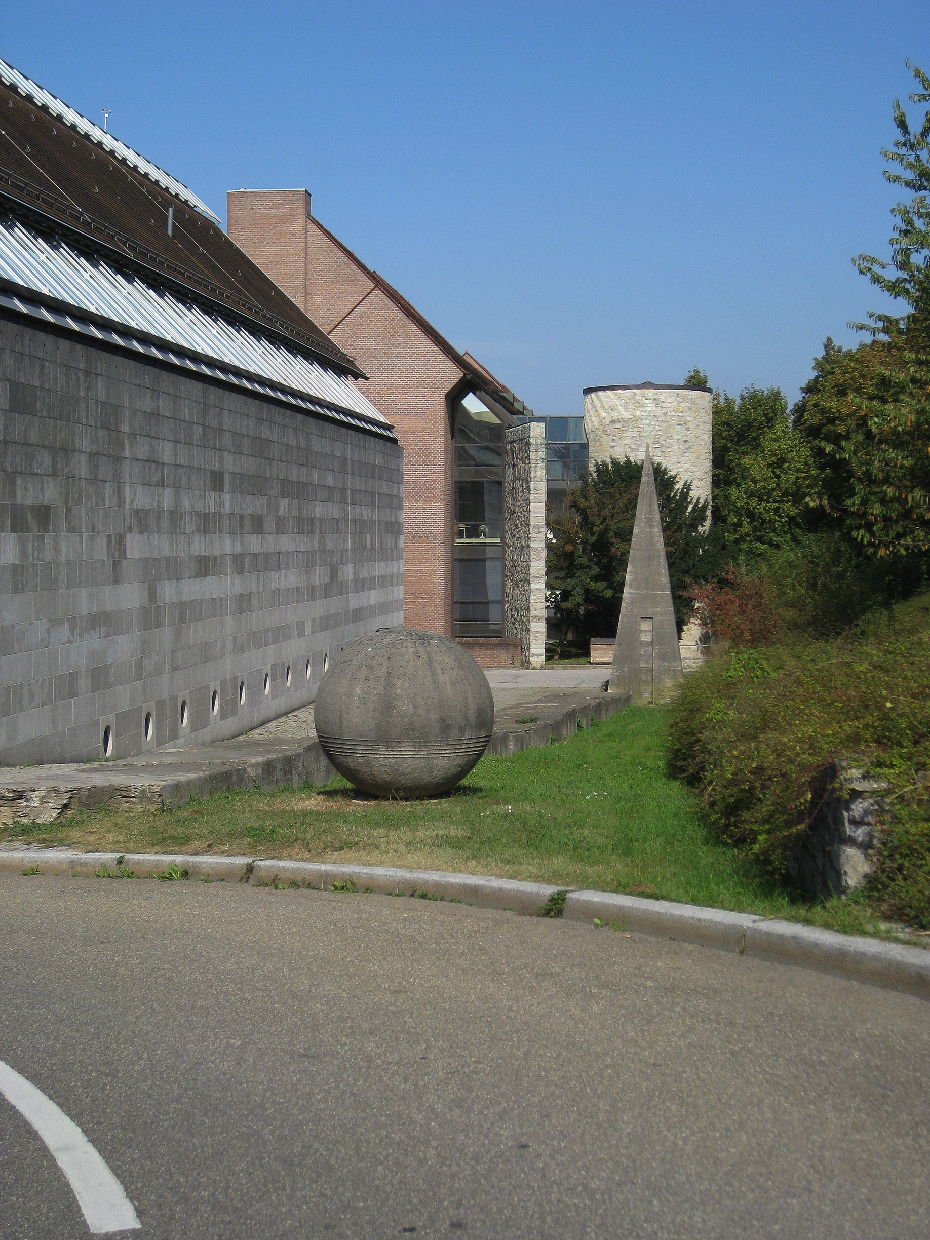 Heinz L. Pistol, Kugel, Pyramide, Stadtmauer, 1988, - Germany, Baden-Württemberg, Schwäbisch Hall